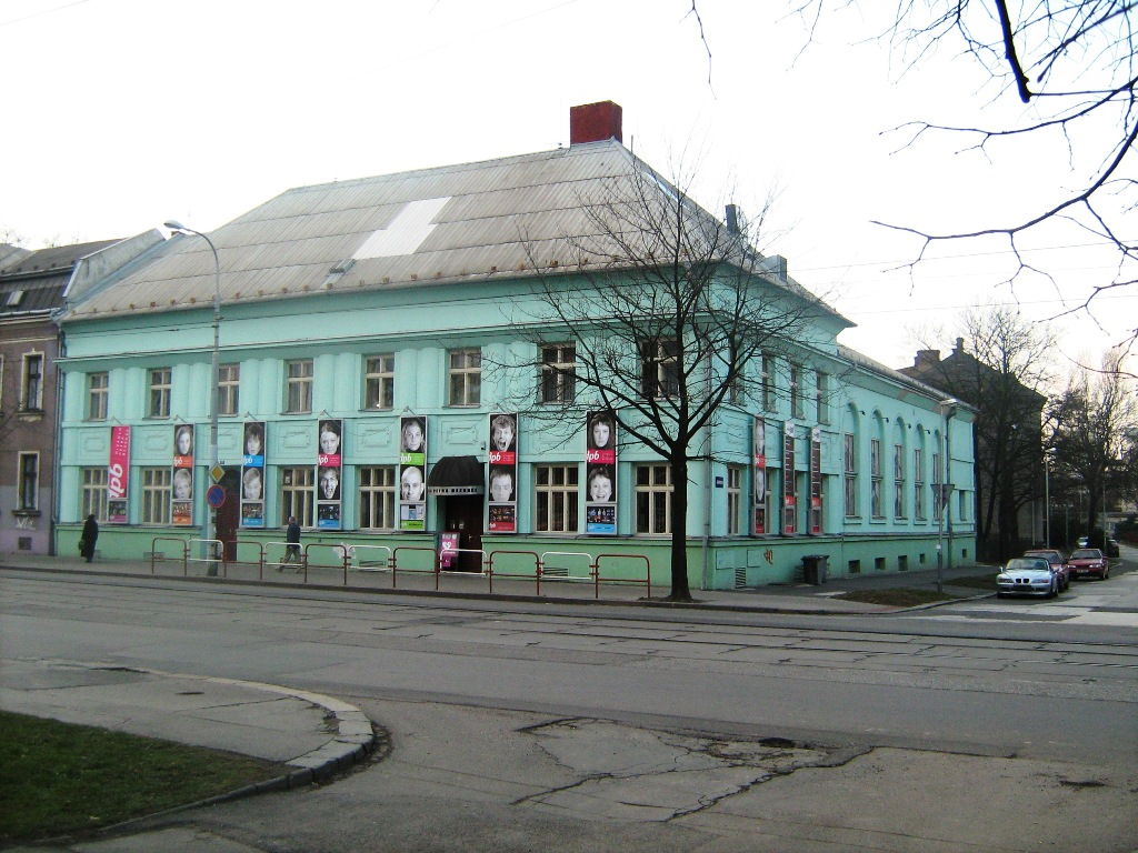 The Petr Bezruč's Theathre in Ostrava. Česky: Ostrava - Divadlo Petra Bezruče.